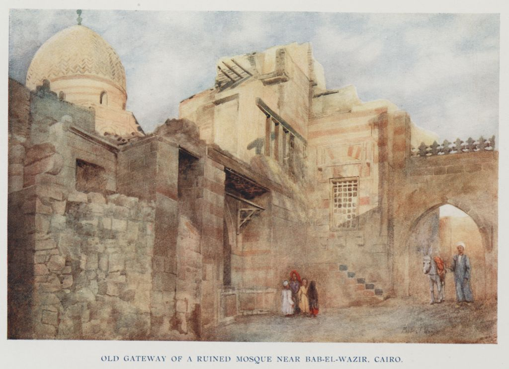 Arch of old mosque. Painting.